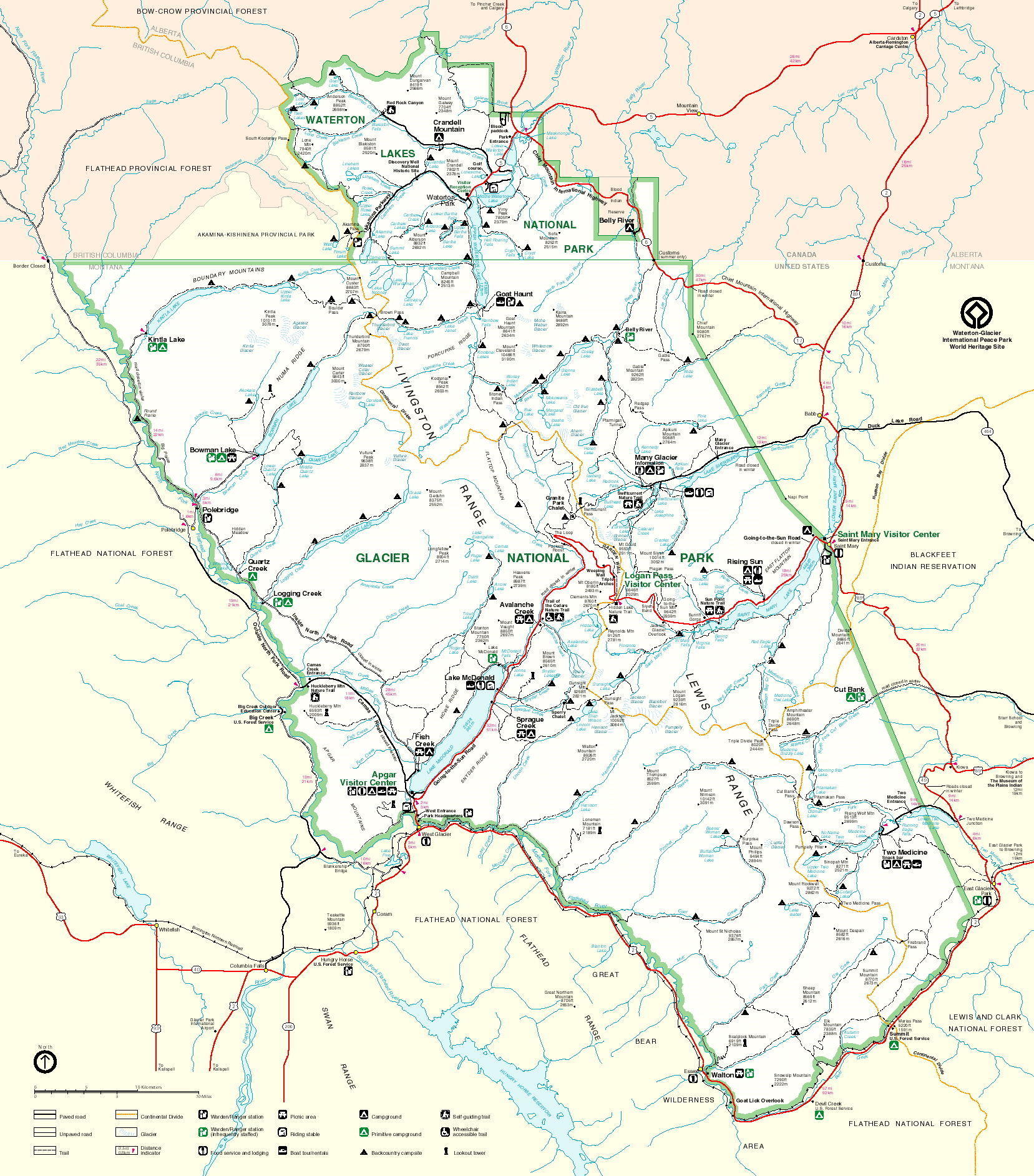 Map of Glacier National Park